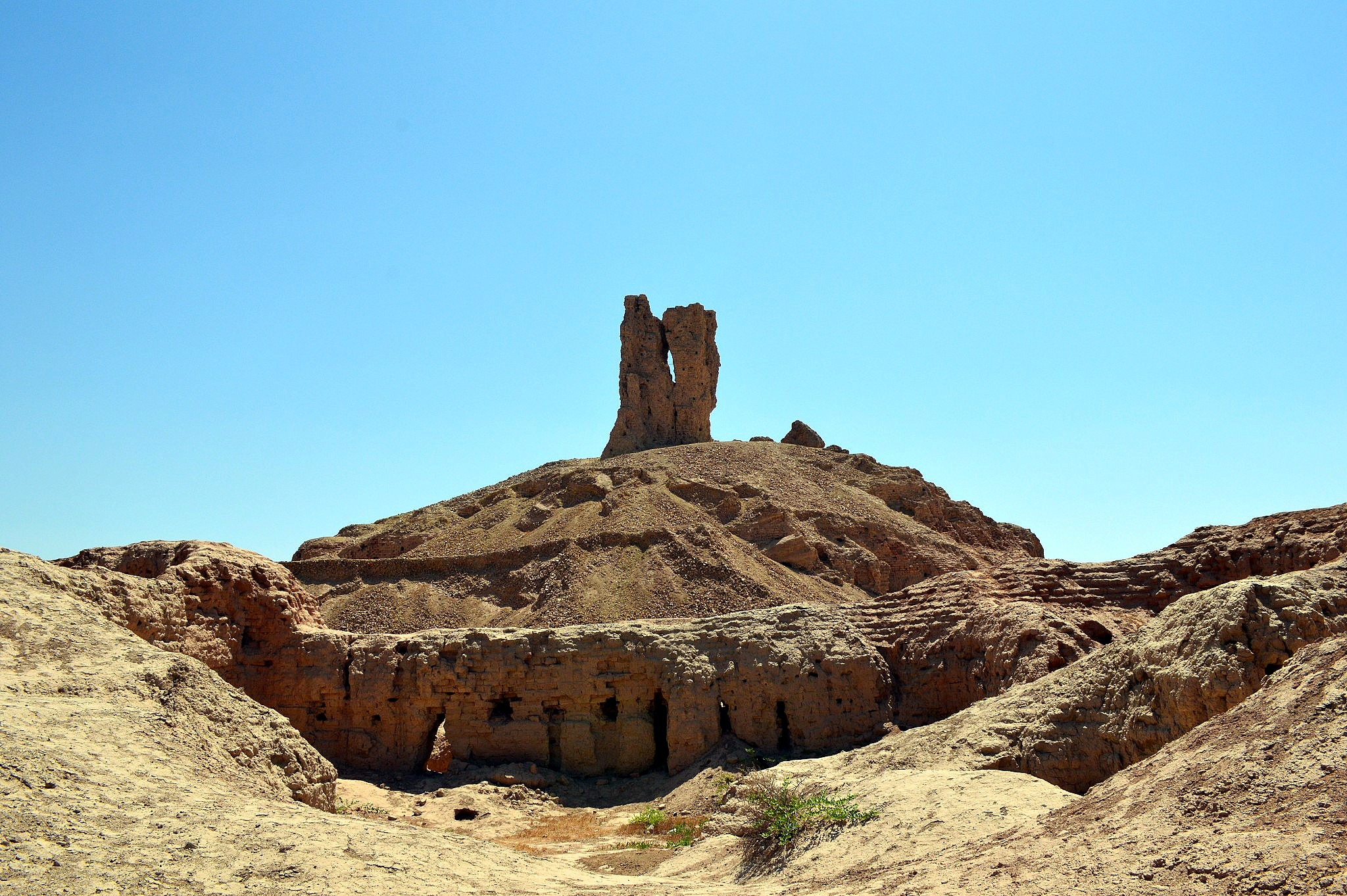 Ruins of the ziggurat and temple of the god Nabu at Borsippa, Babylonia, Iraq. 6th century BC.